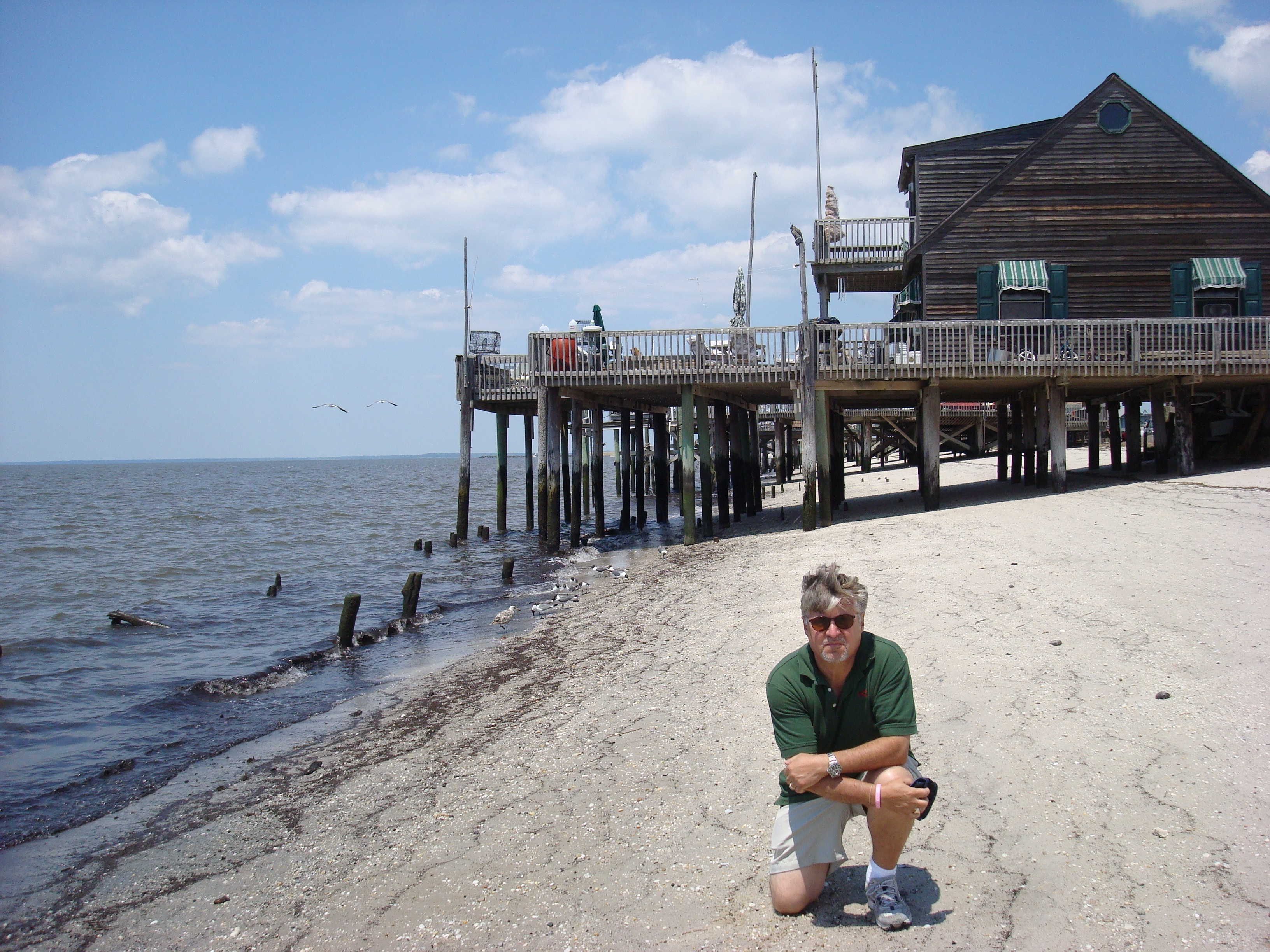 Emil Salvini, enjoying the beach, one of his favorite things to write about.